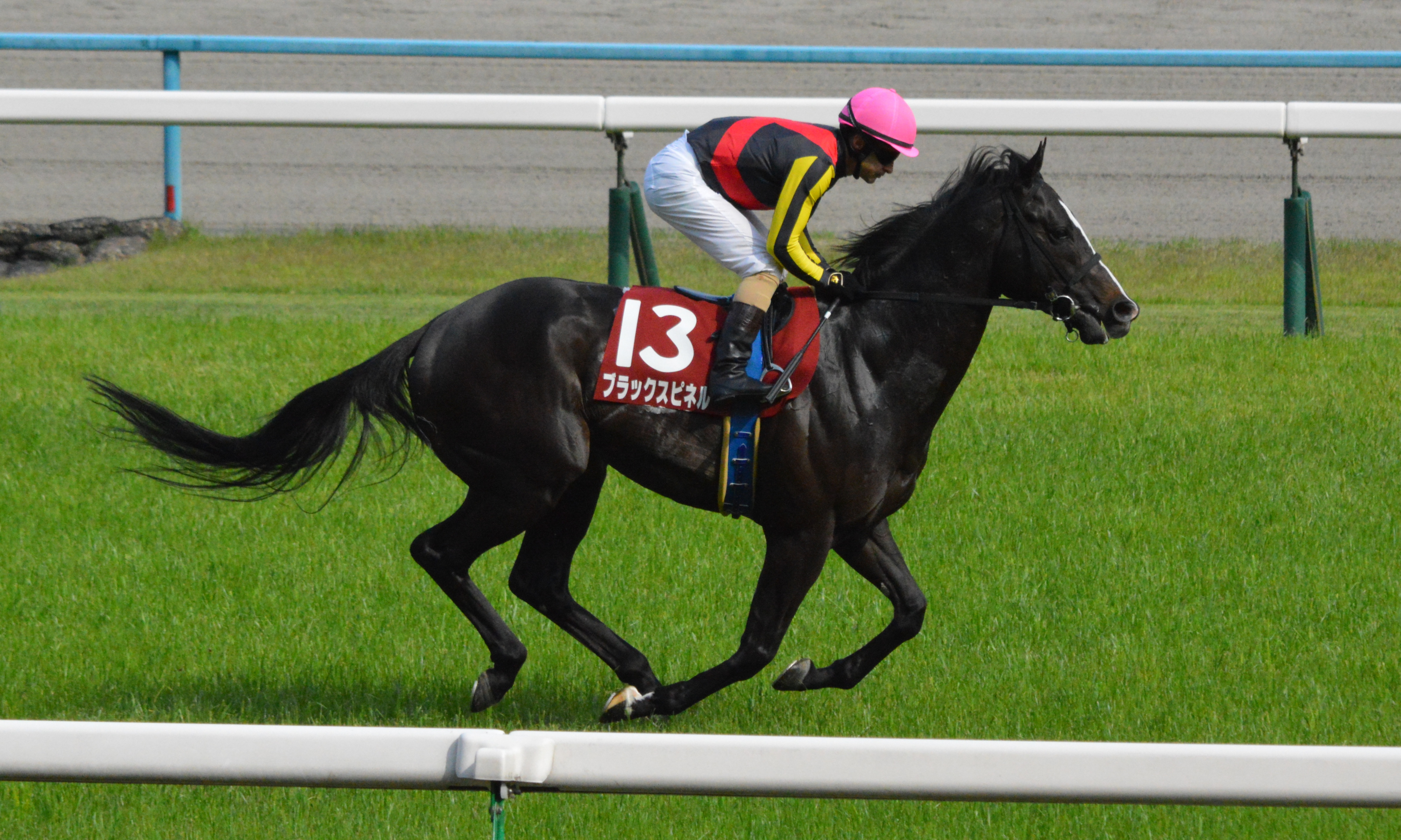 Japanese race horse Black Spinel at Kyoto racecourse. Kyoto (JPN) 7 May 2016Kyoto Shimbun Hai (Grade 2) (3yo) (Turf) 1m3f Firm RankHorse NameOddsAgeWgtJockeyTrainer1stSmart Odin (JPN)EvensFC38-11Keita TosakiKunihide Matsuda4thBlack Spinel (JPN)39/10C38-11Christophe-Patrice LemaireHidetaka OtonashiOthers are omitted. (14 horses entered in a race.)